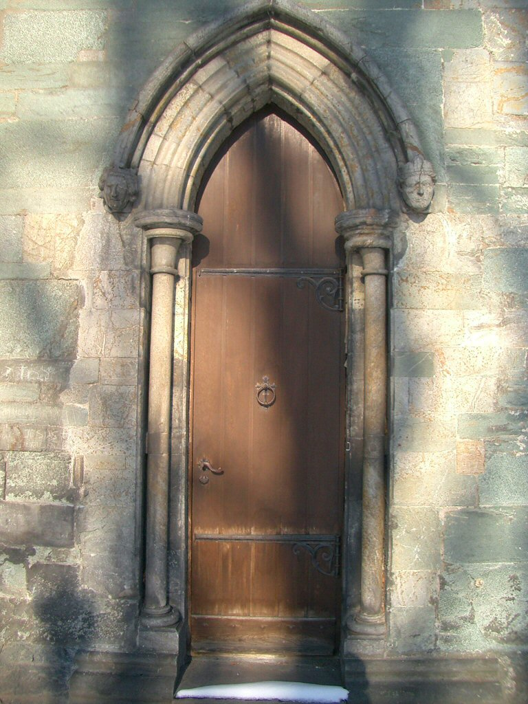 Gothic choir portal at Our Lady's church, Trondheim, Norway.